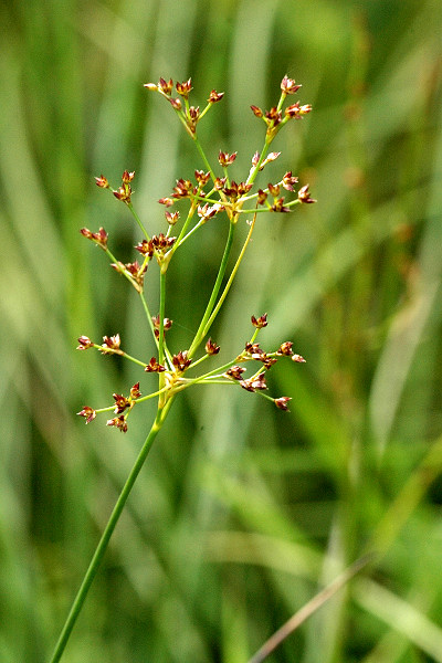 Juncus acutiflorus in Commanster, Belgian High Ardennes.